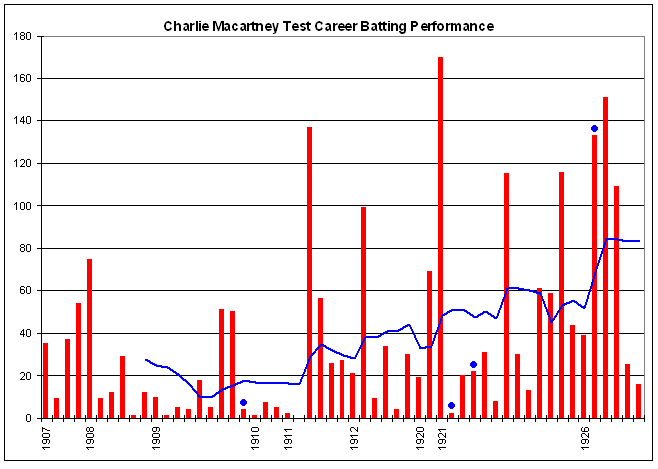 Test batting chart of Charlie Macartney. Red columns are the runs in the innings. Blue dots indicate not outs. Blue line is average in the last ten innings. Thanks to Raven4x4x for providing the template. This graph was generated with Microsoft Excel 2002, using data from Cricinfo [1] and HowStat [2].